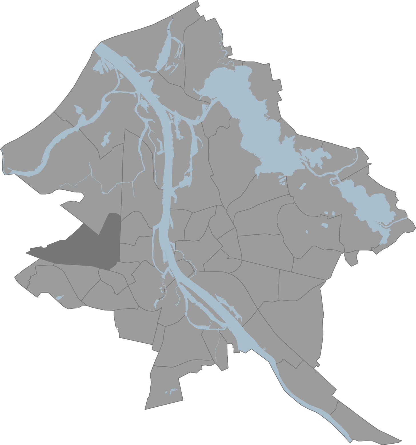 A map of Riga, Latvia with the eponymous commune highlighted